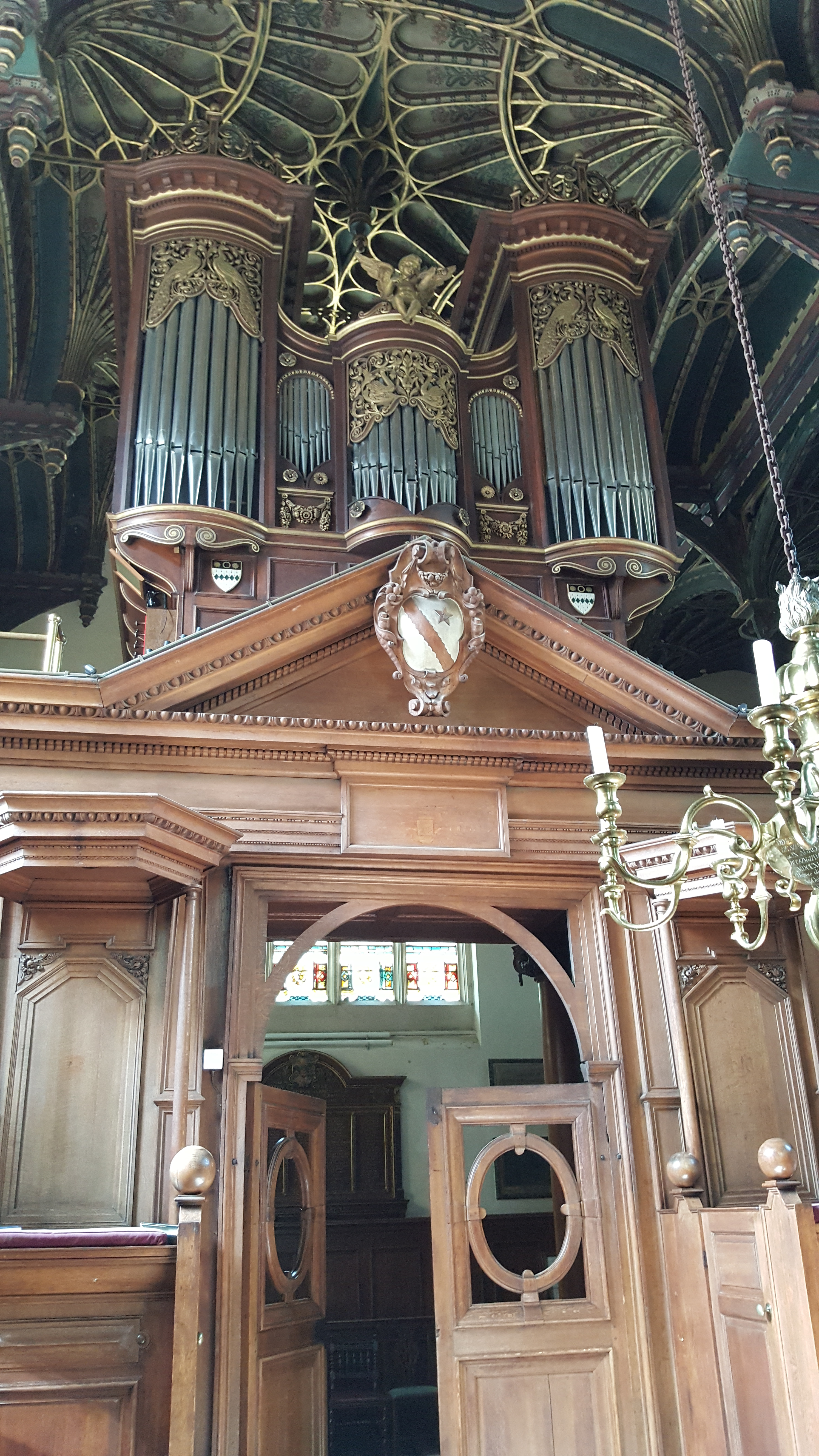 Brasenose College, Chapel, Second Quadrangle. Wooden screen, displaying the arms of Samuel Radcliffe (d.1651), Principal. Wikidata has entry Q17528805 with data related to this item.